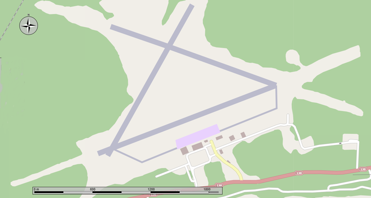 Open Street Map of the Sept Iles Airport, made in the Marble program using the OSM overlay.